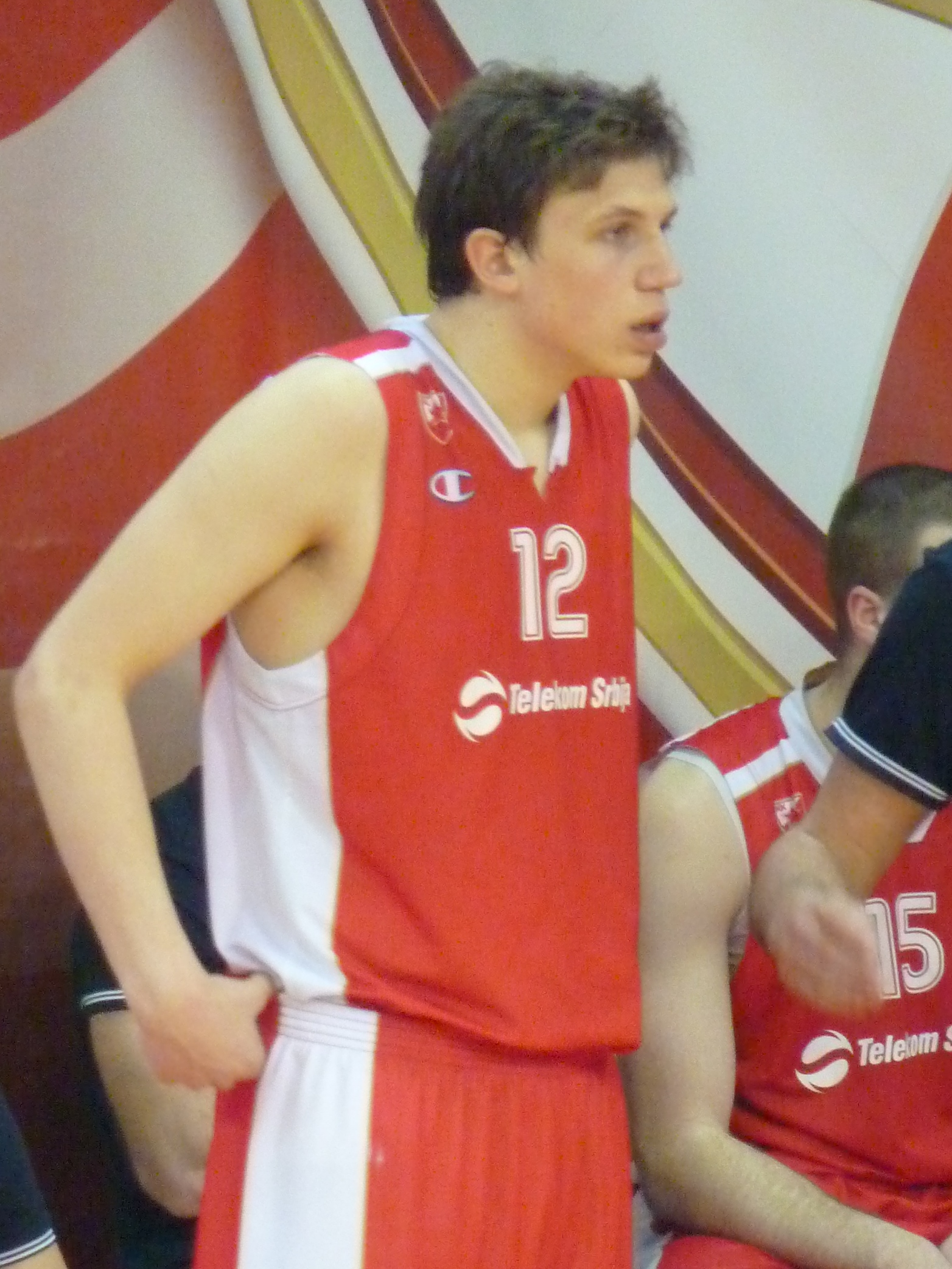 Aleksa Radanov, young basketball player of KK Crvena zvezda